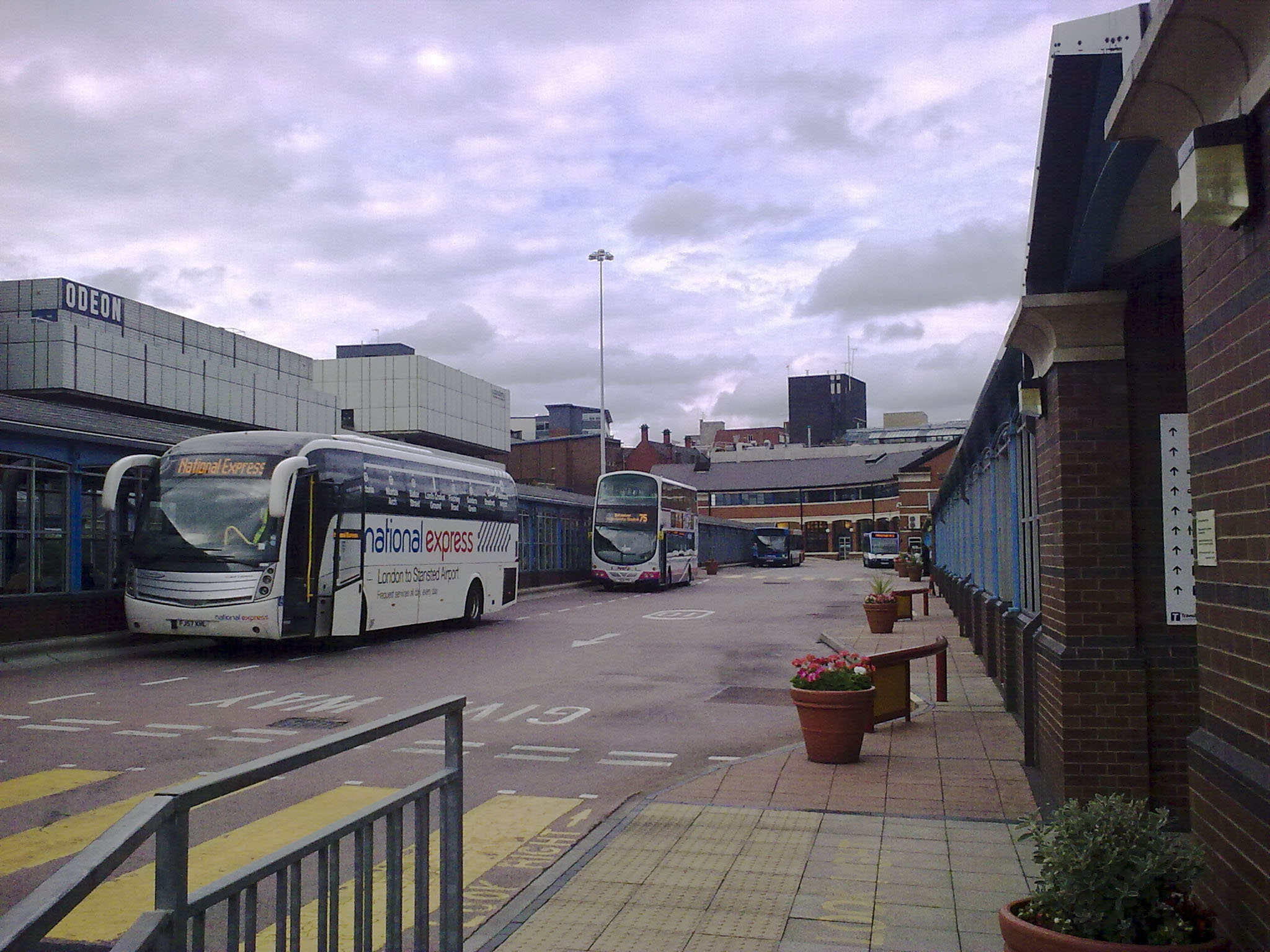 Sheffield Interchange, Sheffield, England. National Express, First South Yorkshire and Stagecoach services visible.